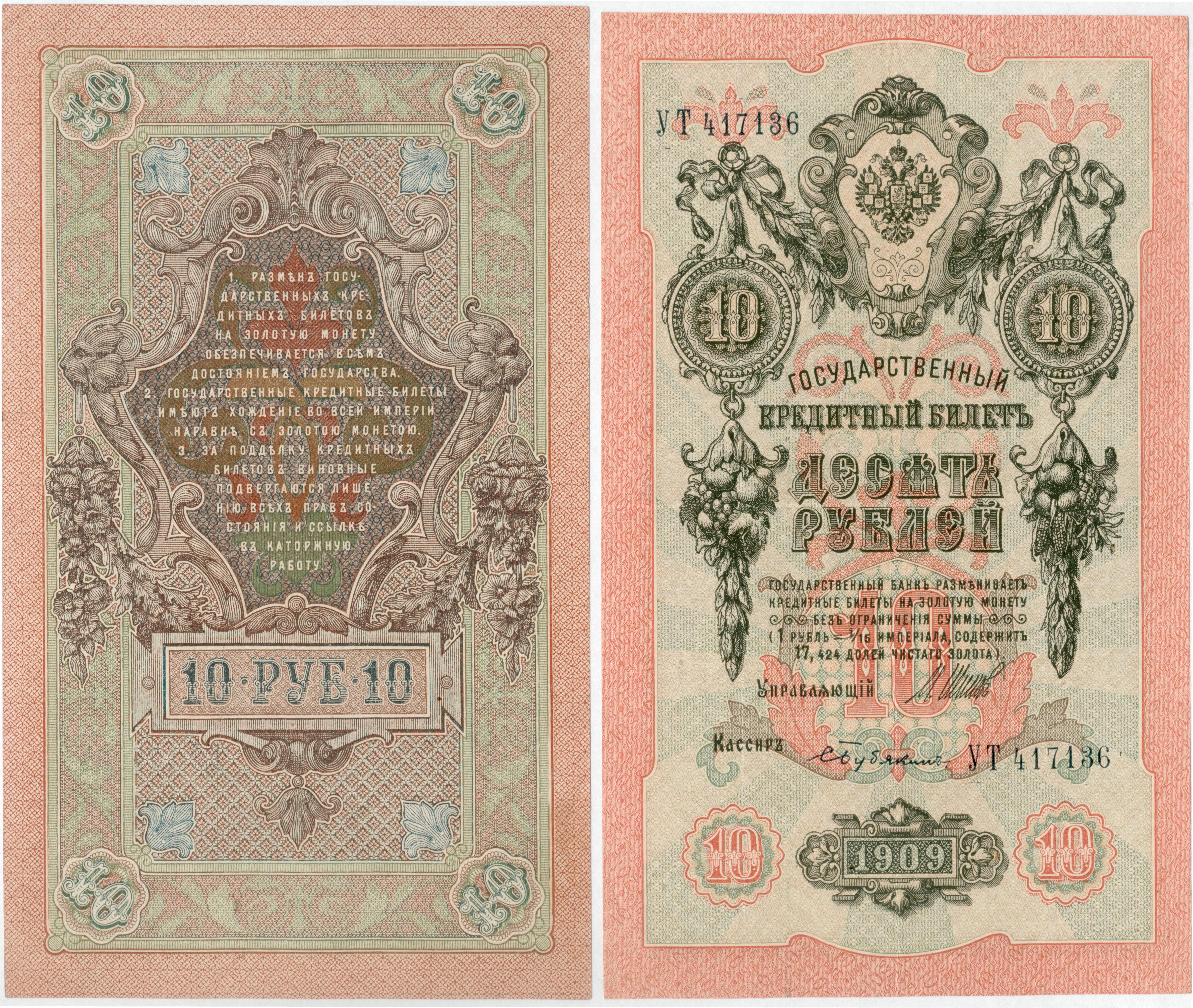 Russian Empire banknote 10 rubles. Version of 1909 year. R and F